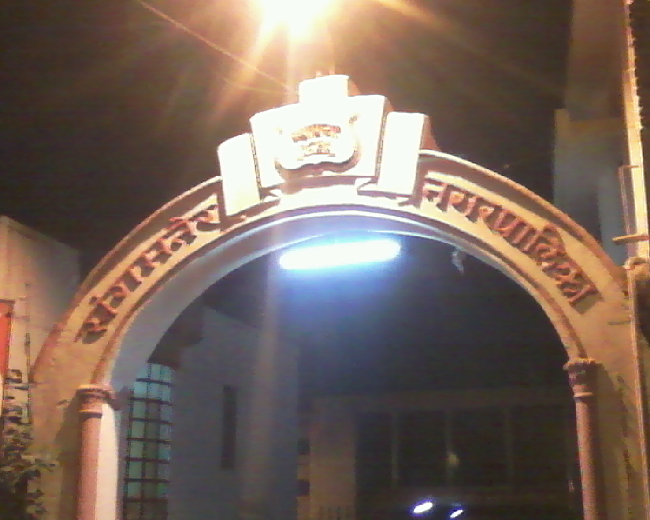 sangamner nagarpalika gate